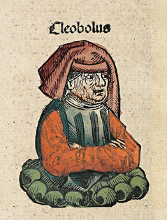 Woodcut from the Nuremberg Chronicle